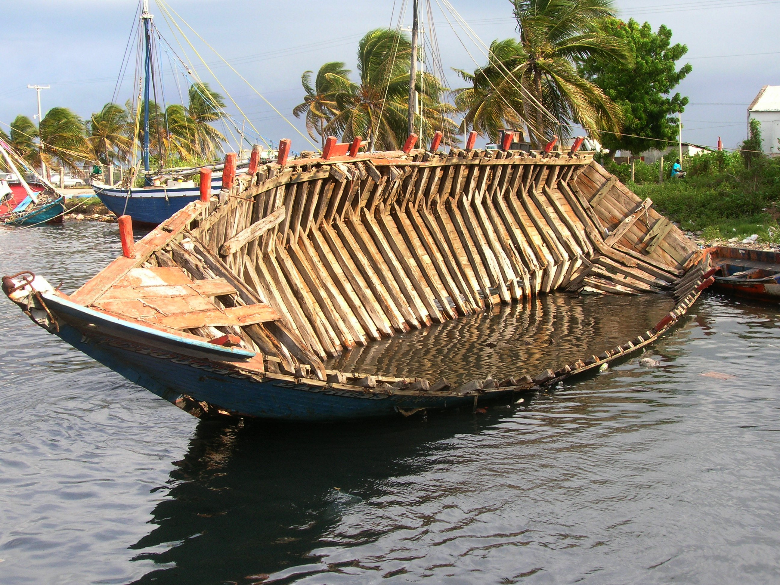 A wooden (fishing ?) boat stranded in Cap-Haitien's harbour (Haiti). The transverse framing system can clearly be seen.